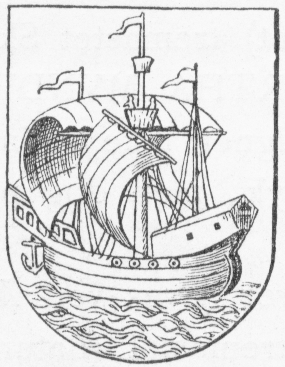 Coat of arms of Bogense, a chartered town in Denmark. Illustration from the article Om danske By- og Herredsvaaben written by Anders Thiset and published in Tidsskrift for Kunstindustri 1893-1894.